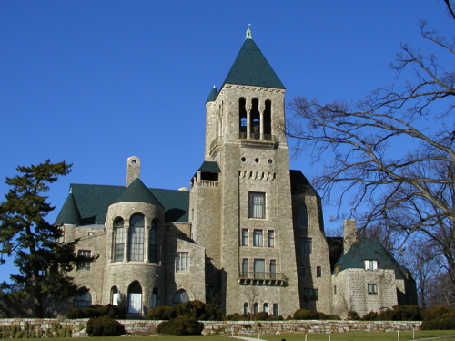 The exterior of the Glencairn Museum in Bryn Athyn, Pennsylvania